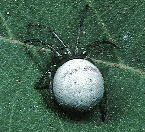 female Araneus amabilis from Okinawa.